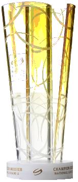 New Swiss Icehockey Nationalliga A championship trophy Twinskate (since season 07/08)